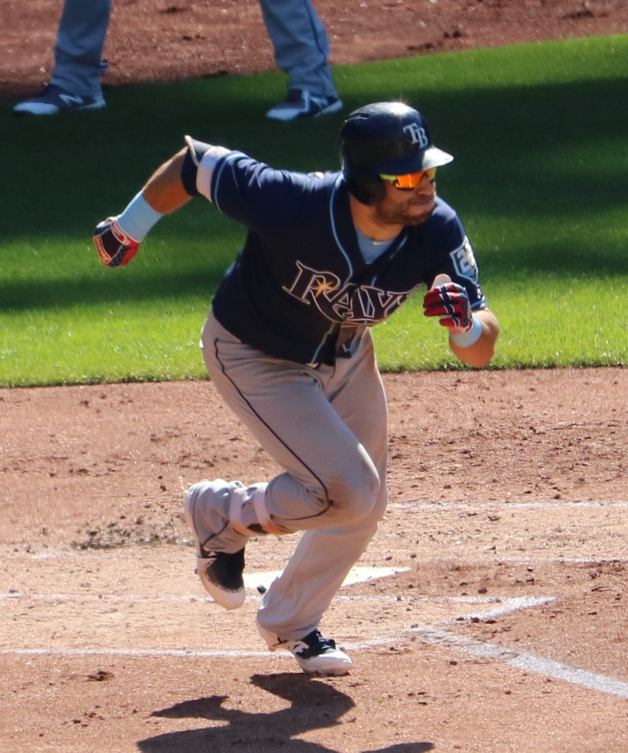 Kevin Kiermaier at bat, July 7, 2018